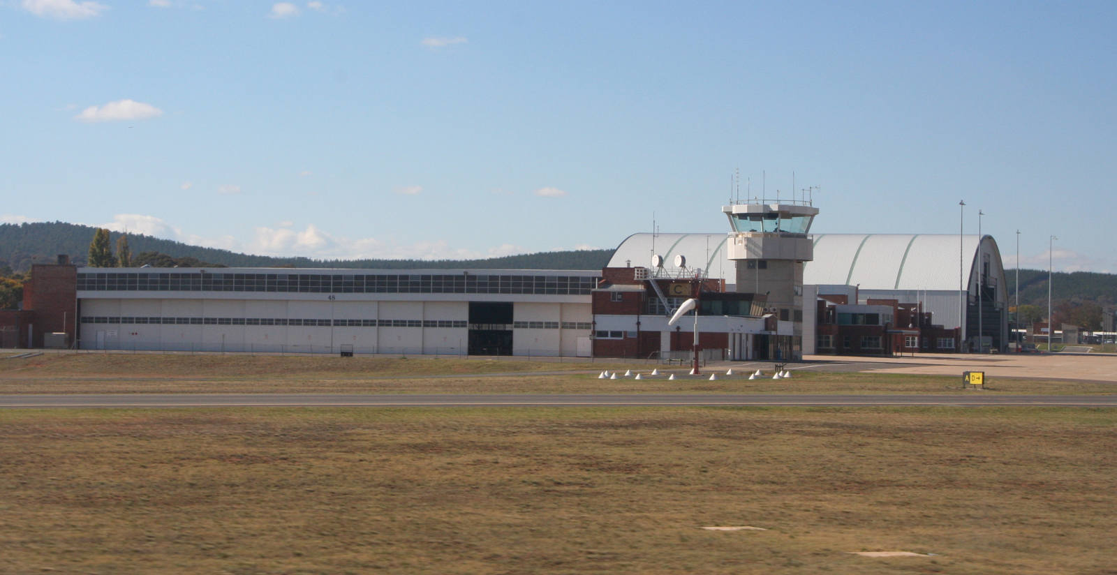 RAAF Base Fairbairn / Canberra International Airport - Australia.